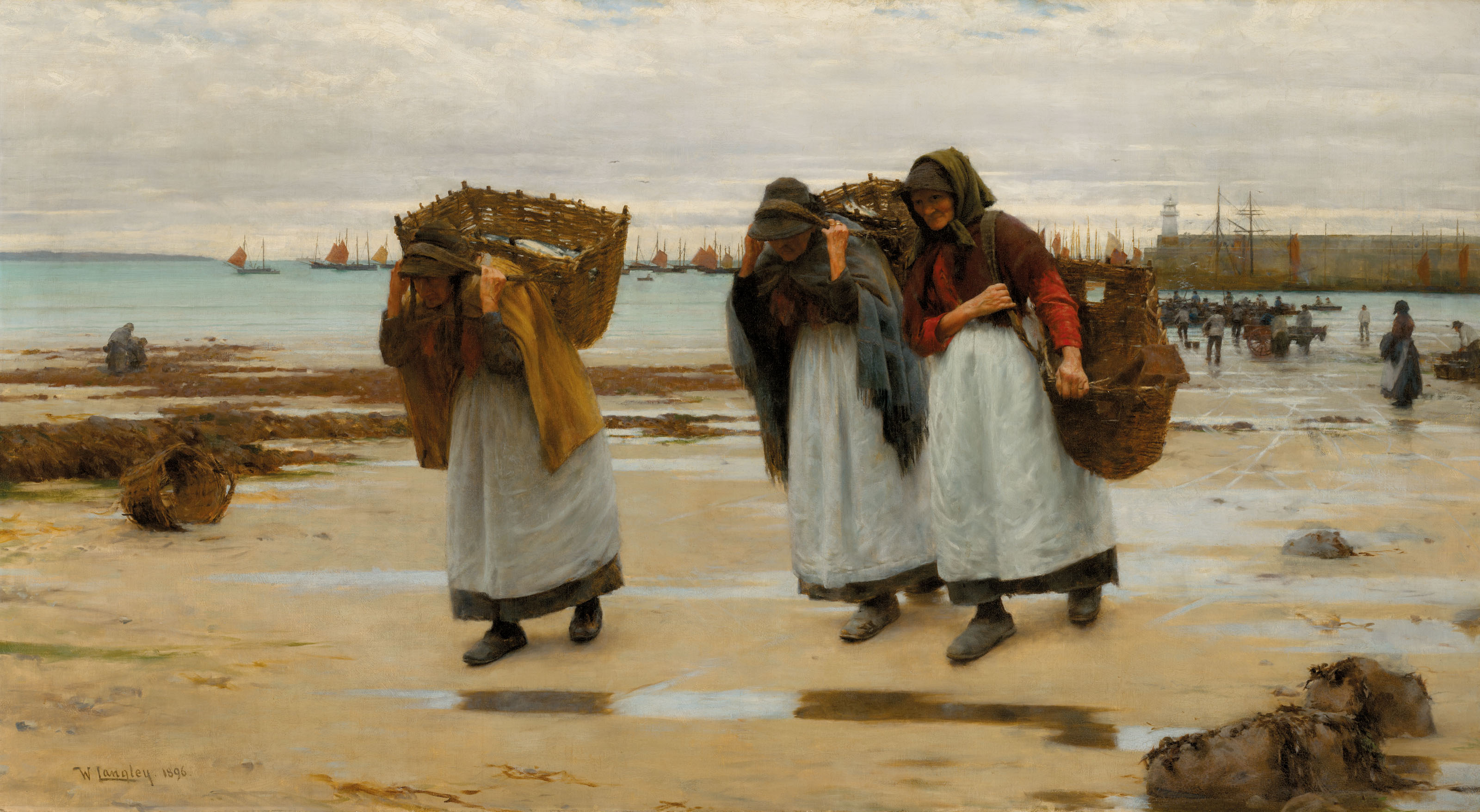 The Breadwinners, oil on canvas, 45 ½ x 85 in. (115.6 x 215.9 cm.)